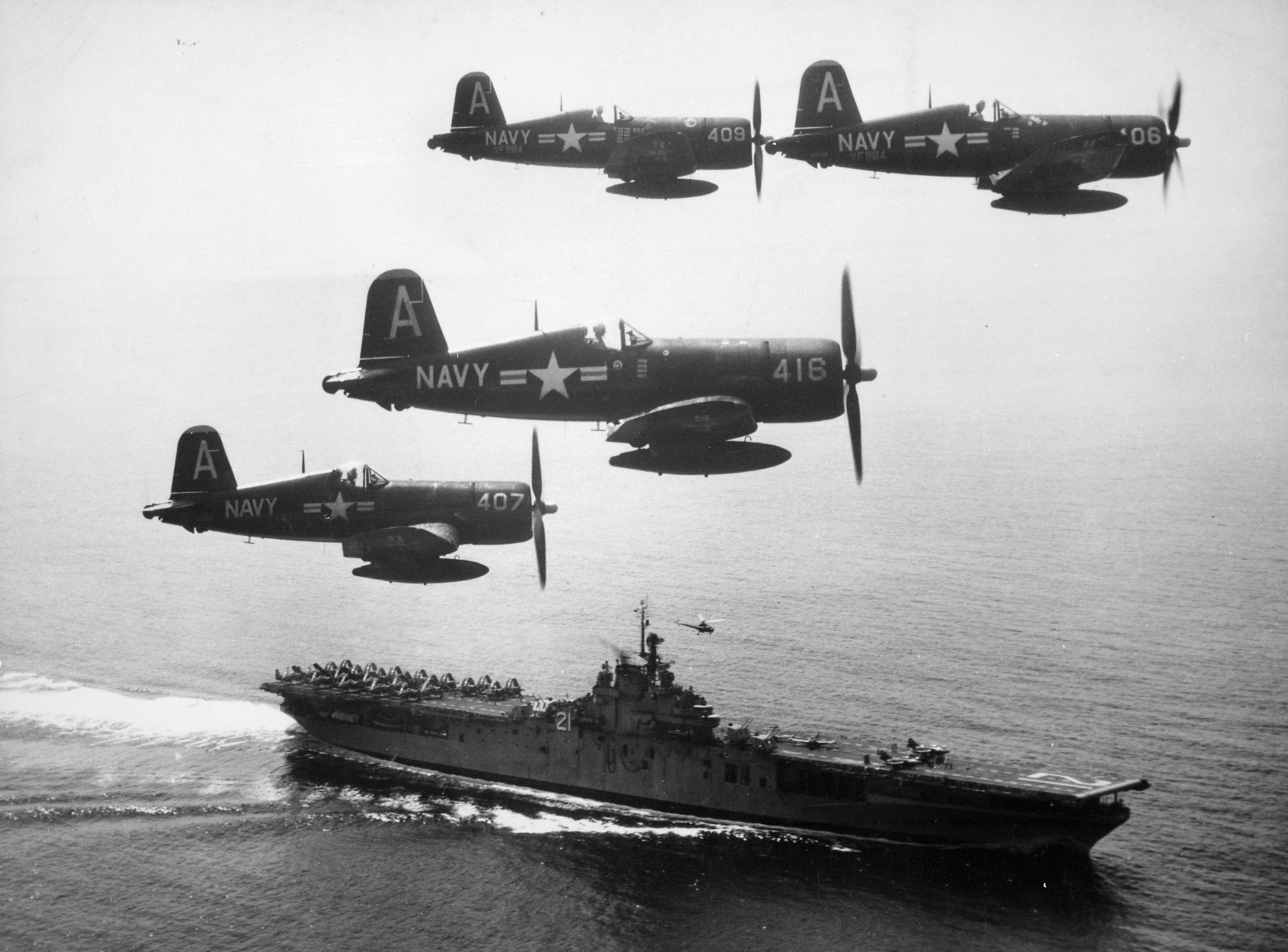 Four U.S. Navy Vought F4U-4 Corsairs from Fighter Squadron 884 (VF-884) "Bitter Birds" fly past their parent carrier USS Boxer (CV-21) on 4 September 1951. VF-884 was assigned to Carrier Air Group 101 (CVg-101) aboard the Boxer for a deployment deployed to Korea from 2 March to 24 October 1951.Original caption: "F4U's (Corsairs) returning from a combat mission over North Korea circle the USS Boxer as they wait for planes in the next strike to be launched from her flight deck - a helicopter hovers above the ship. September 4, 1951."